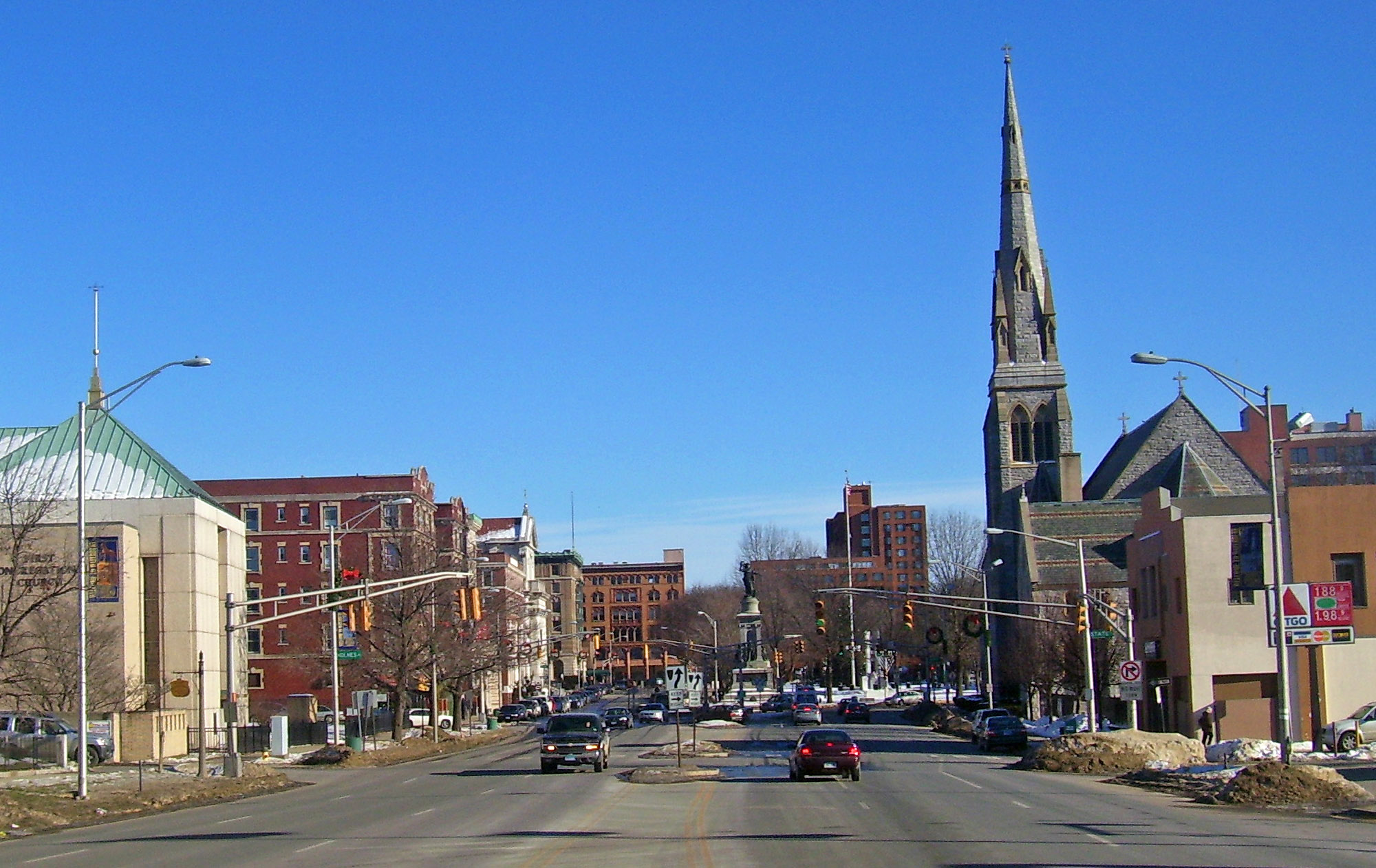 View east along Grand Street into center of downtown Waterbury, CT, USA